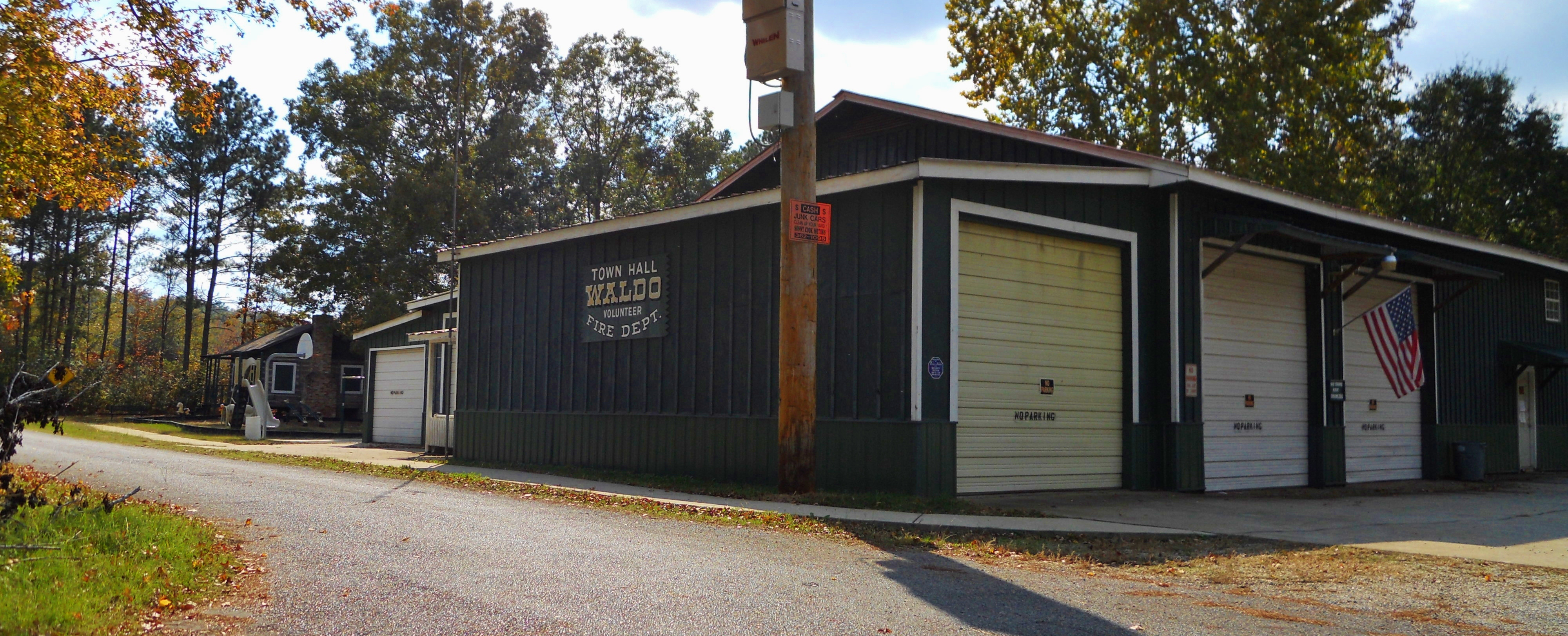 This is a photograph of Waldo, Alabama.